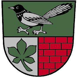 Coat of Arms of Caaschwitz First upload: Tukasu (09:17, 11. Mär 2006)